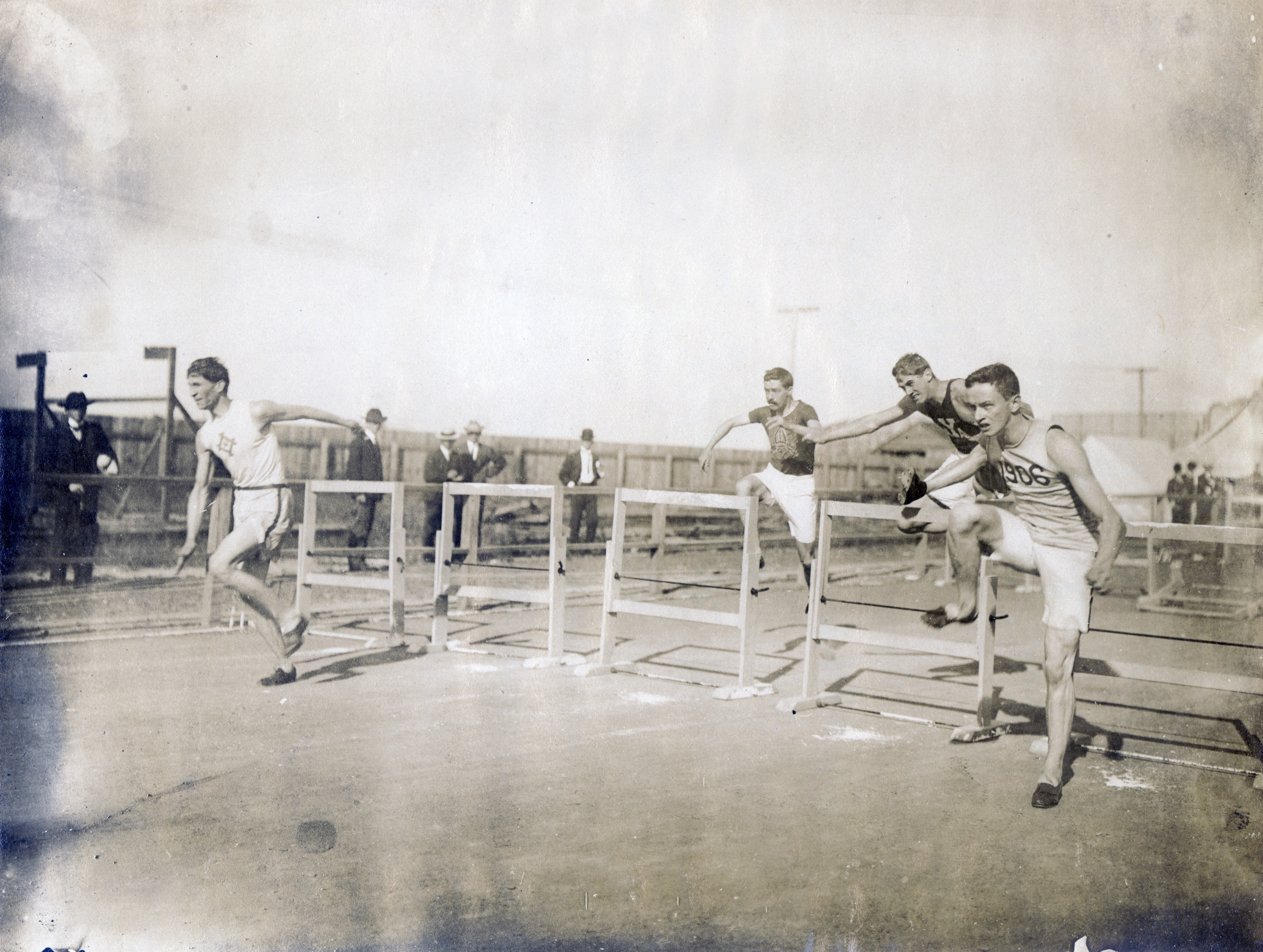 First Heat, 110 Meter Hurdles; Frederick Schule, Milwaukee Athletic Club 1st; Lesley Ashburner, Cornell University 2nd; Ward McLanahan, Yale University/New York Athletic Club 3rd; Cornelius H. Gardner (Australia), Melbourian Hare and Hounds Athletic Club 4thTitle: Frederick W. Schule of the Milwaukee Athletic Club winning the 110 meter hurdle race at the 1904 Olympics.